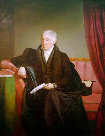 The Viennese banker Bernhard von Eskeles (1753-1839)